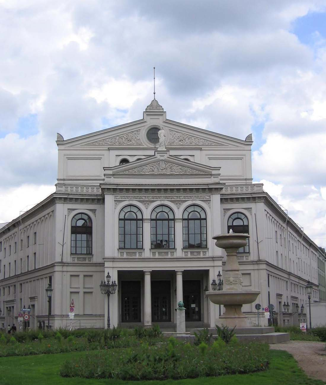 The Staatstheater am Gärtnerplatz (State Theater on Gärtnerplatz) in Munich, Germany.